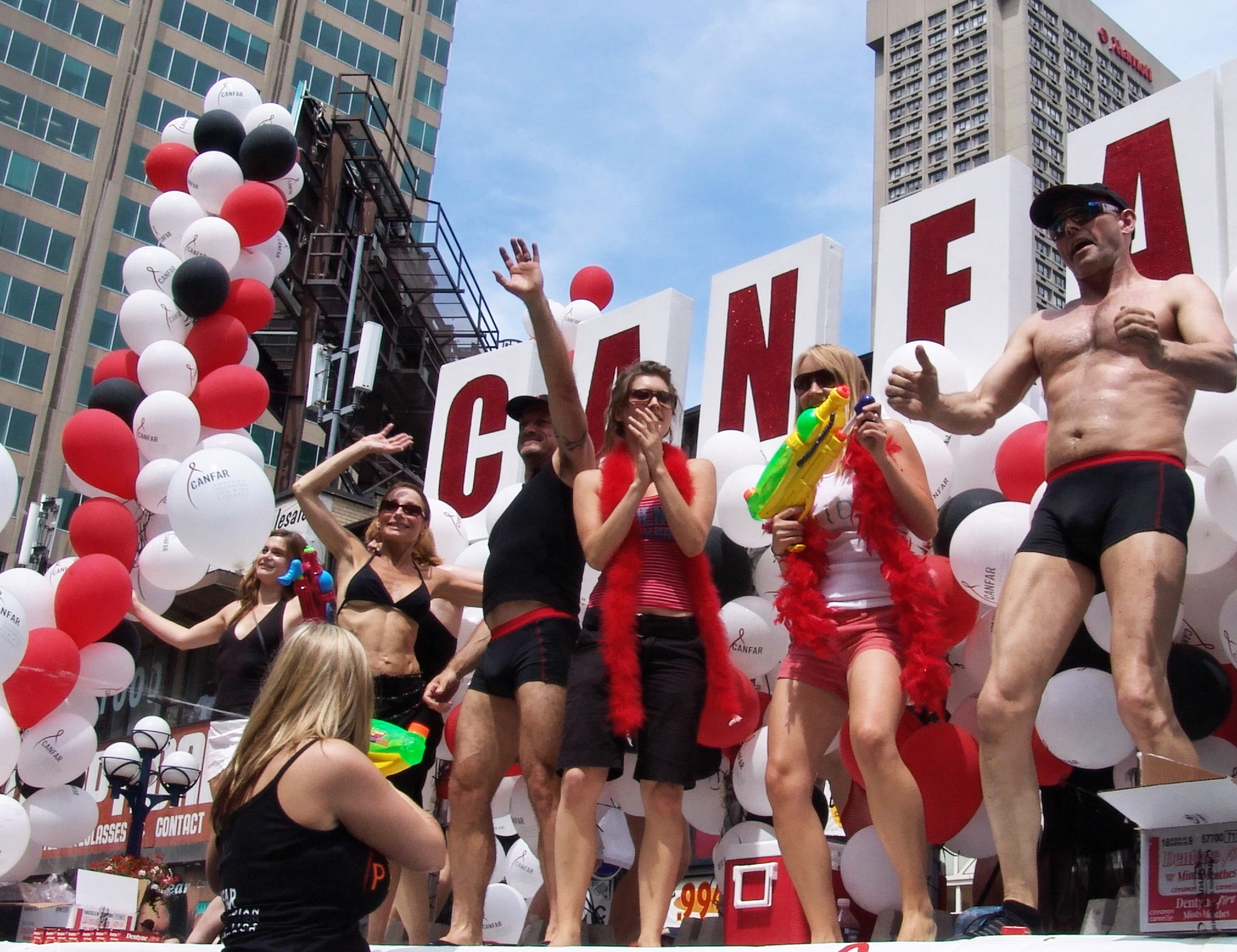 Toronto Gay Pride Parade 2006. Gay Pride Parade is the fun and fabulous arts and culture festival that happens on the last week of June each year in Toronto. Pride celebrates diverse sexual and gender identities, histories, cultures, families, friends and lives. Gay Pride Parade in Toronto attracts about 1 million tourists. More pictures...